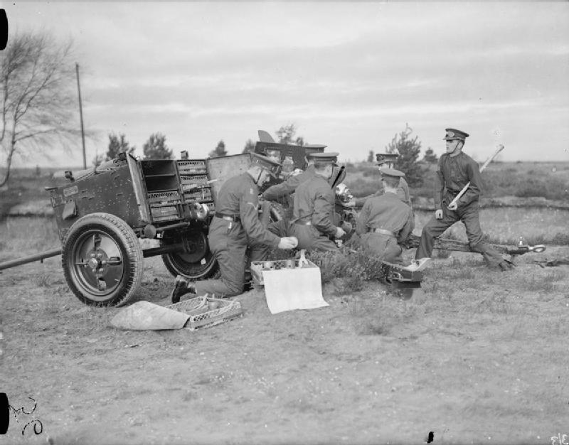 THE BRITISH ARMY PREPARES FOR WAR Crew of a 3.7 inch howitzer of A Battery (The Chestnut Troop) Royal Horse Artillery prepare their gun for firing during an exercise. Comment : The ammunition limber is in the traditional position to the left of the gun.